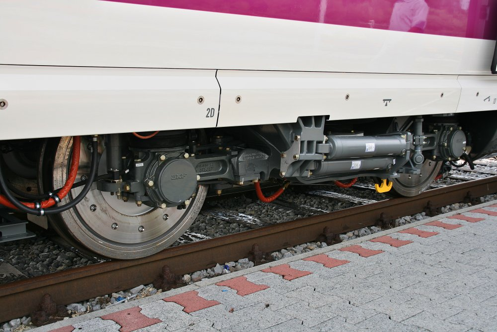 Bogie of a Velaro E high-speed train